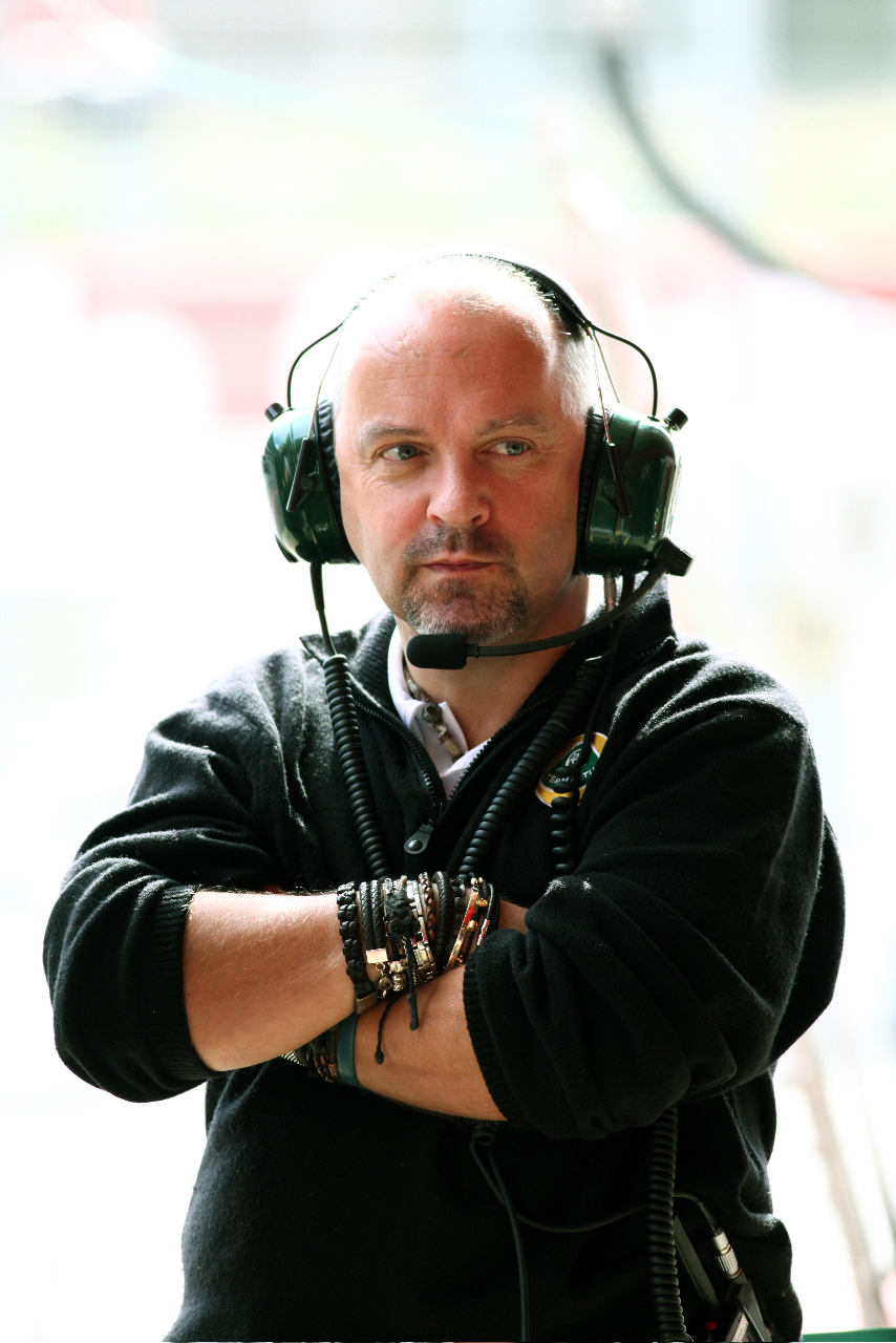 Mike gascoyne profile picture